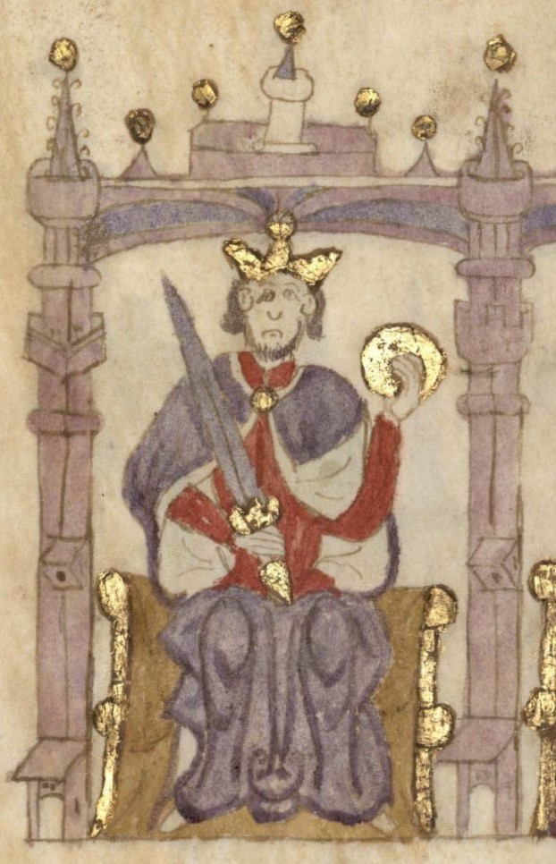 Peter I of Aragon, in "Compendio de crónicas de reyes"